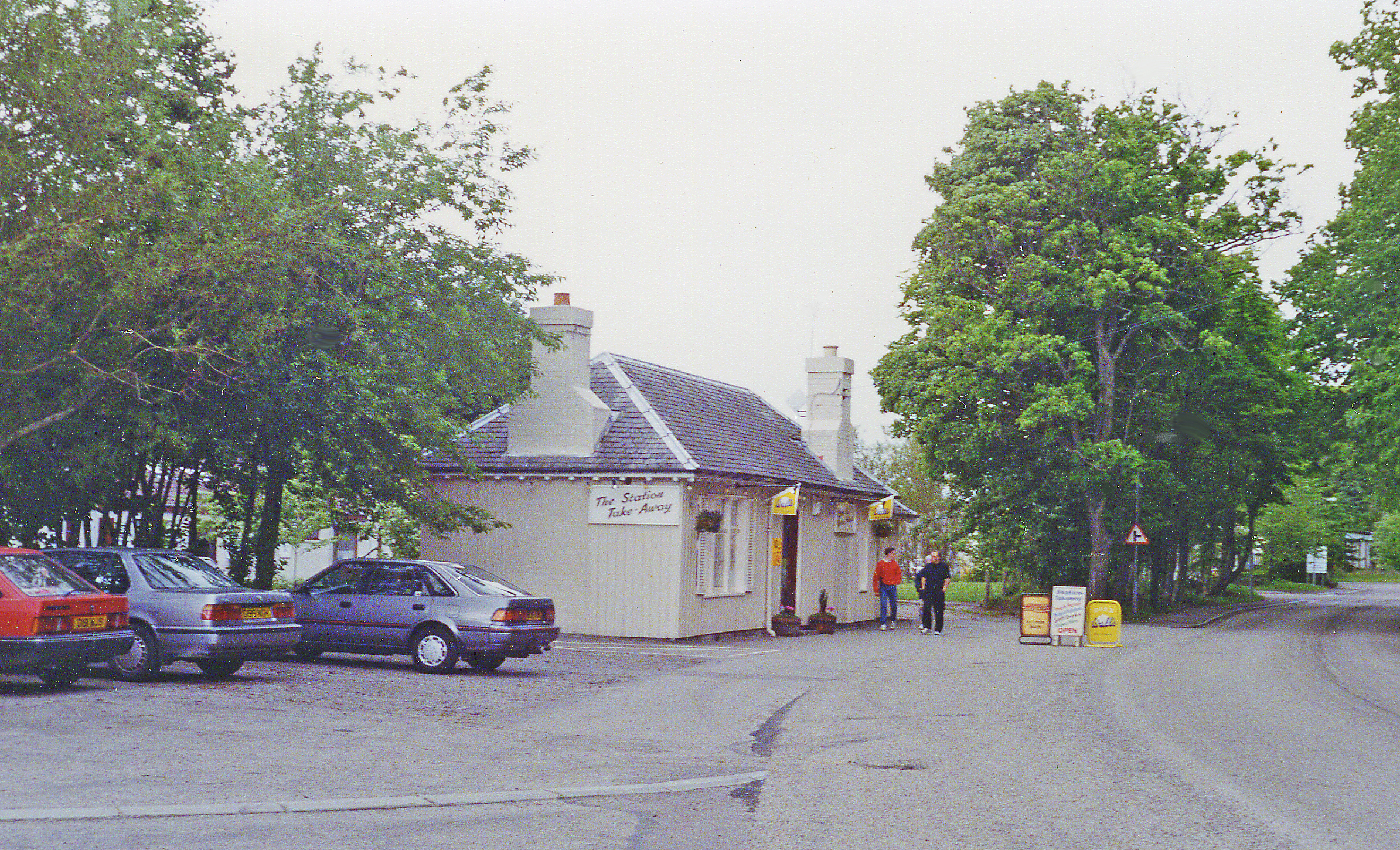 Dornoch: former station, 1994. View northward, towards The Mound: terminus of ex-Highland Railway branch. This was closed 13/6/60 and has become a café.